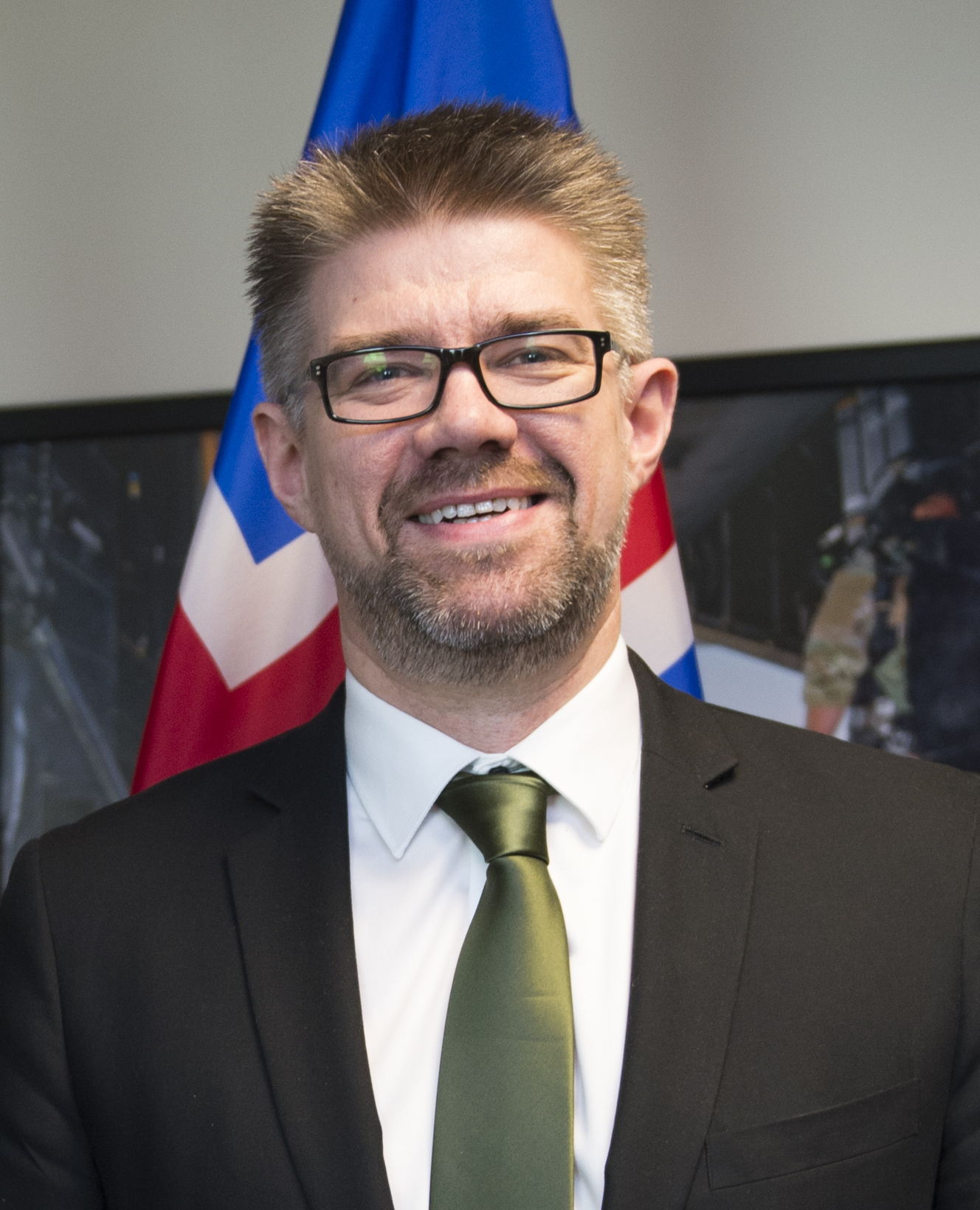 Icelandic Minister for Foreign Affairs Gunnar Bragi Sveinsson at the Pentagon in Arlington, Va., April 10, 2014.